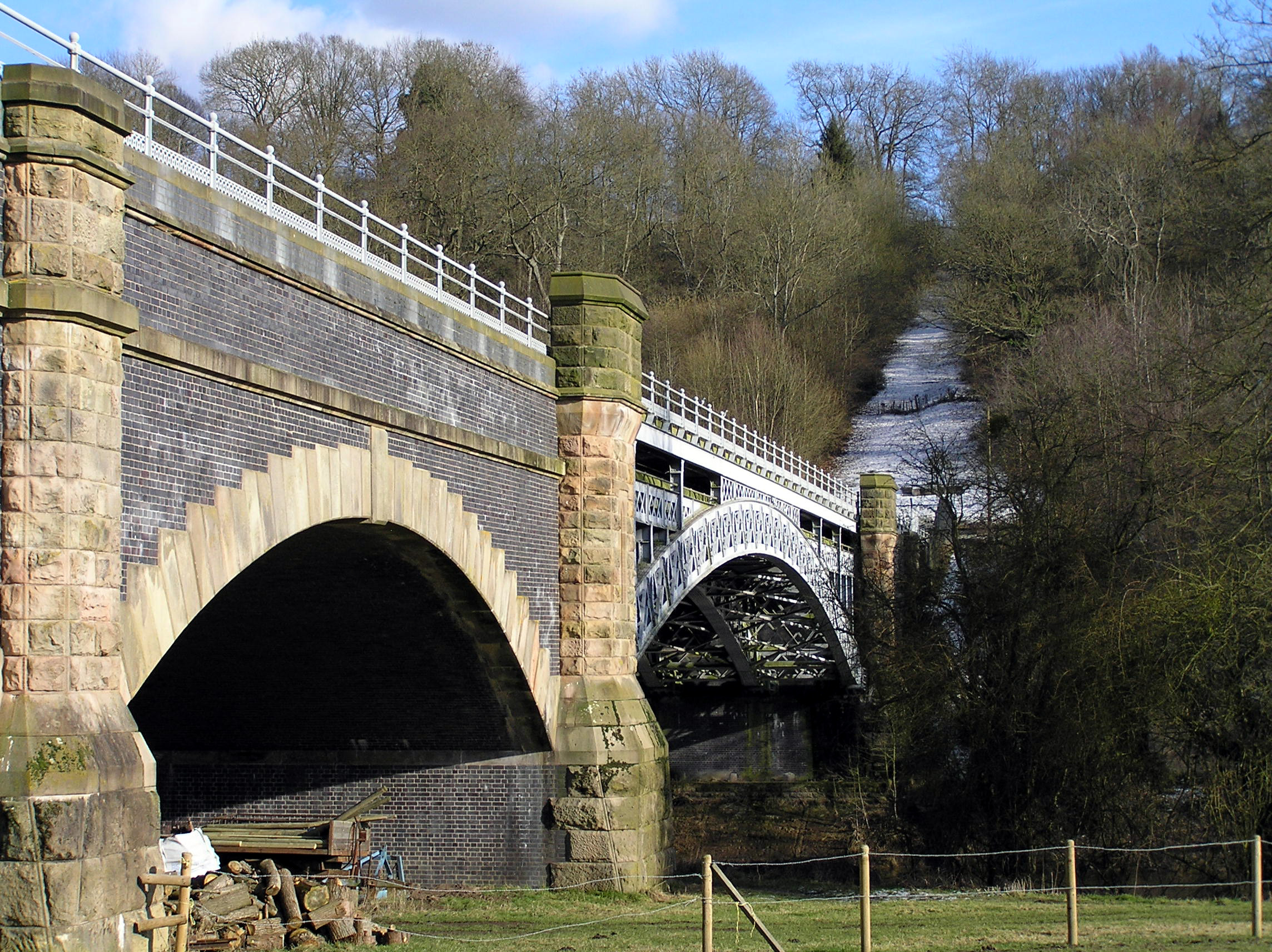 River Severn, Bewdley Aqueduct Opened in 1904 to carry the water pipeline from the Elan valley reservoirs to the city of Birmingham, considered to be the seventy ninth bridge from the source.